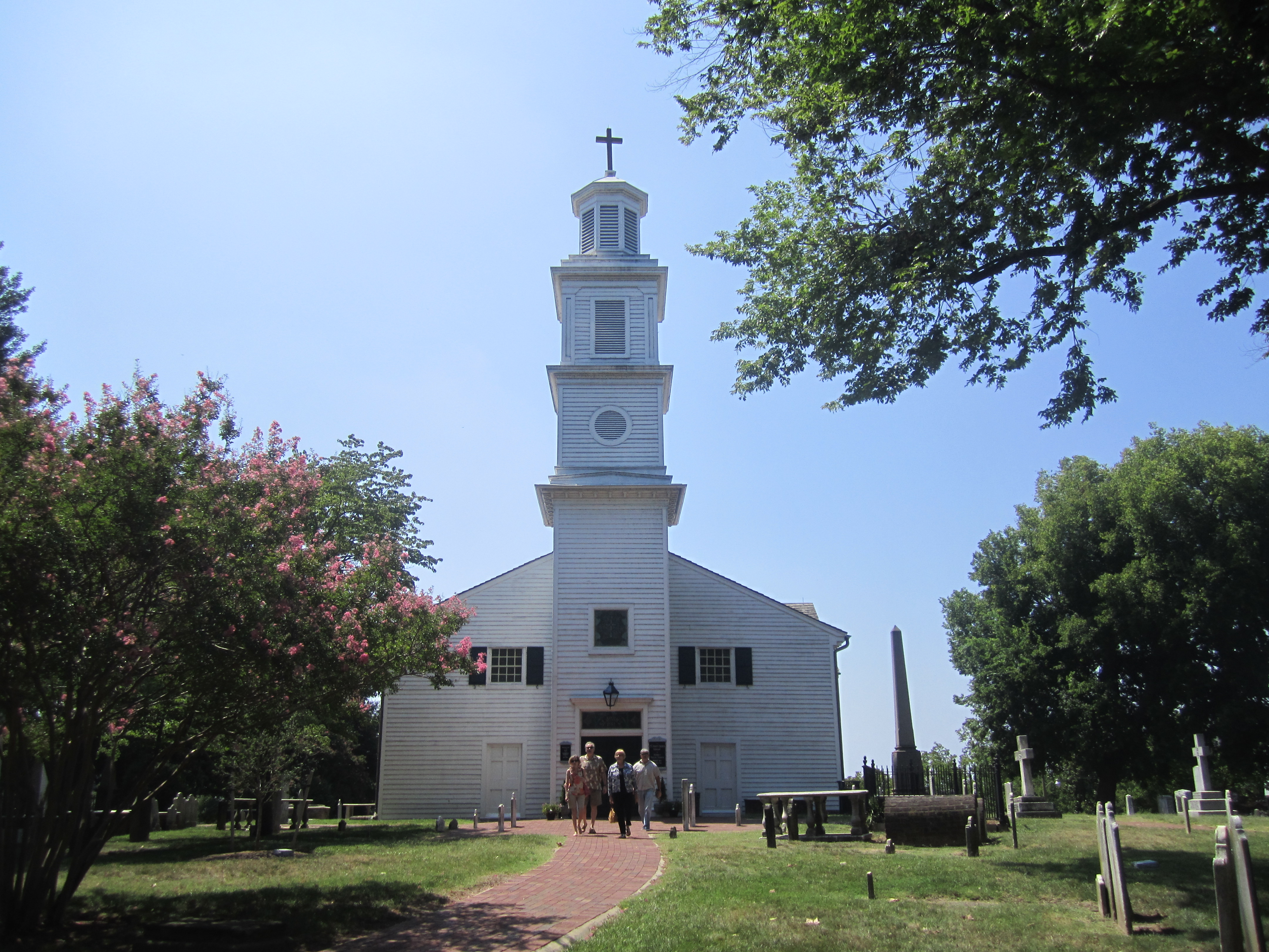 I took photo with Canon camera in Richmond, VA.